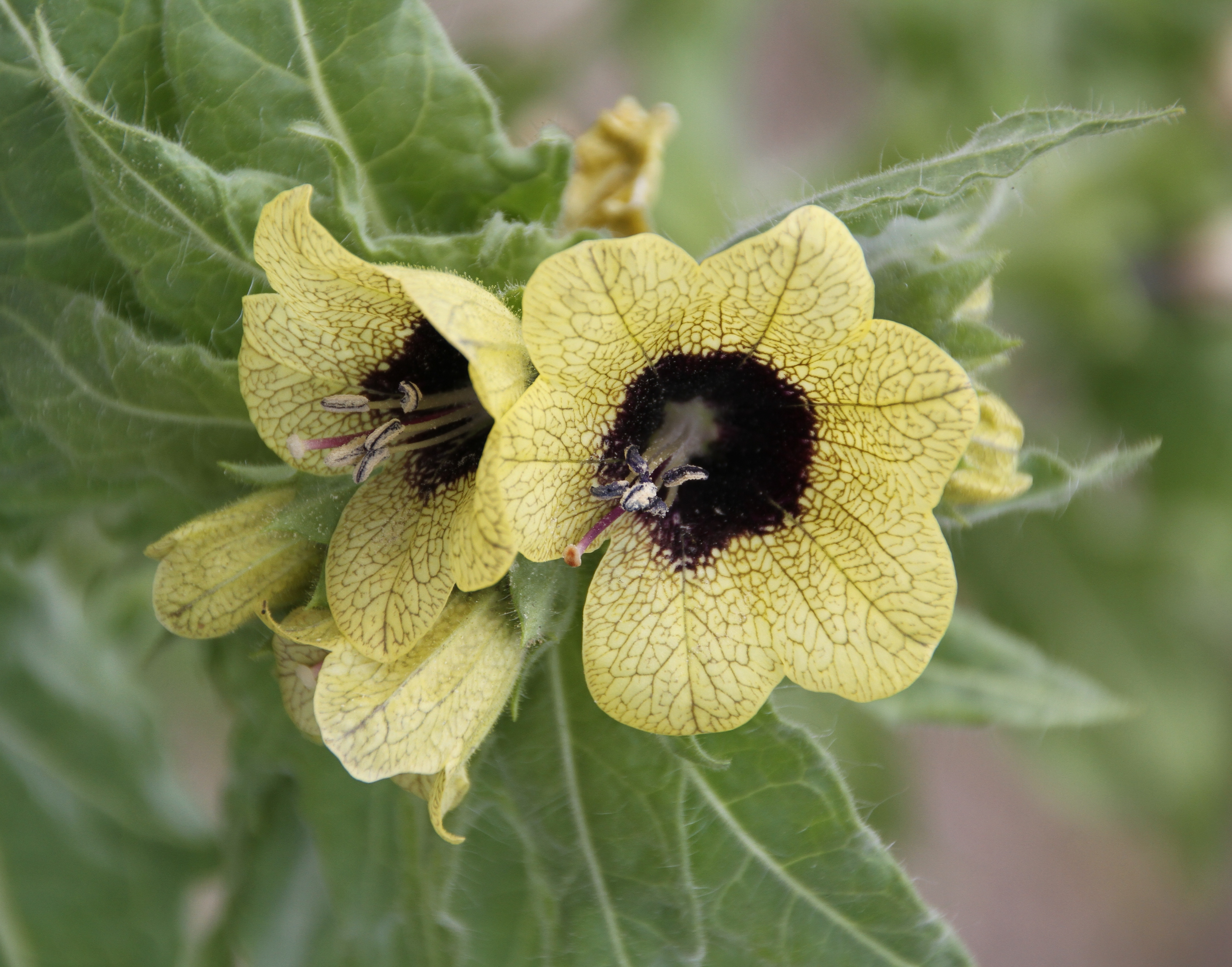 Photo of Hyoscyamus niger (norwegian: bulmeurt) at the island og Hovedøya, in the inner Oslofjord, Norway.